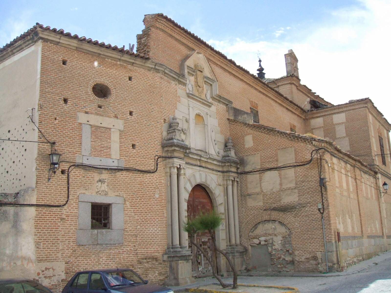 Antiguo Colegio Jesuita de Santiago (Arévalo)